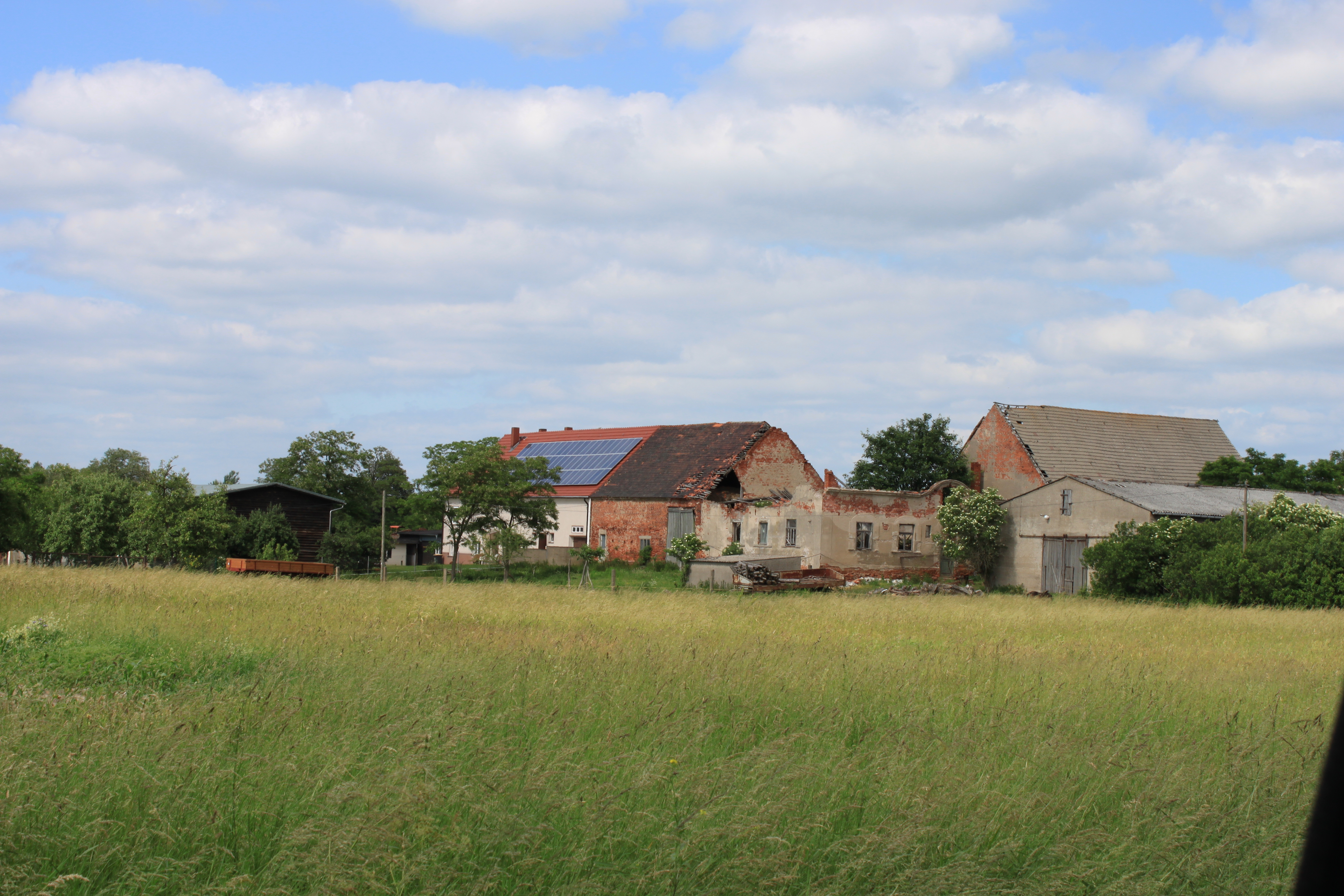 Wendisch Borschütz